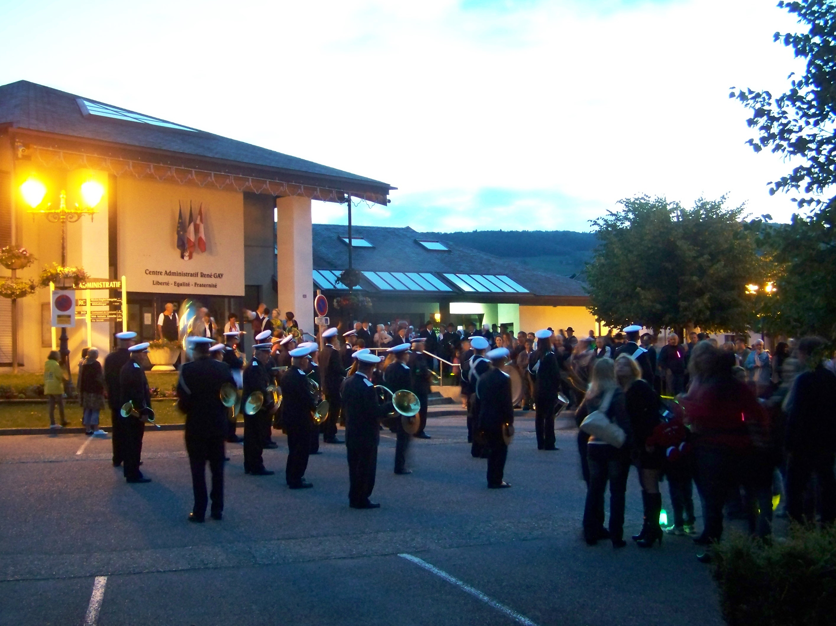 Crowning ceremony of la Rosière in Albens, Savoie, France. Here, brass band and people are awaiting for the torchlight procession in the streets of Albens.